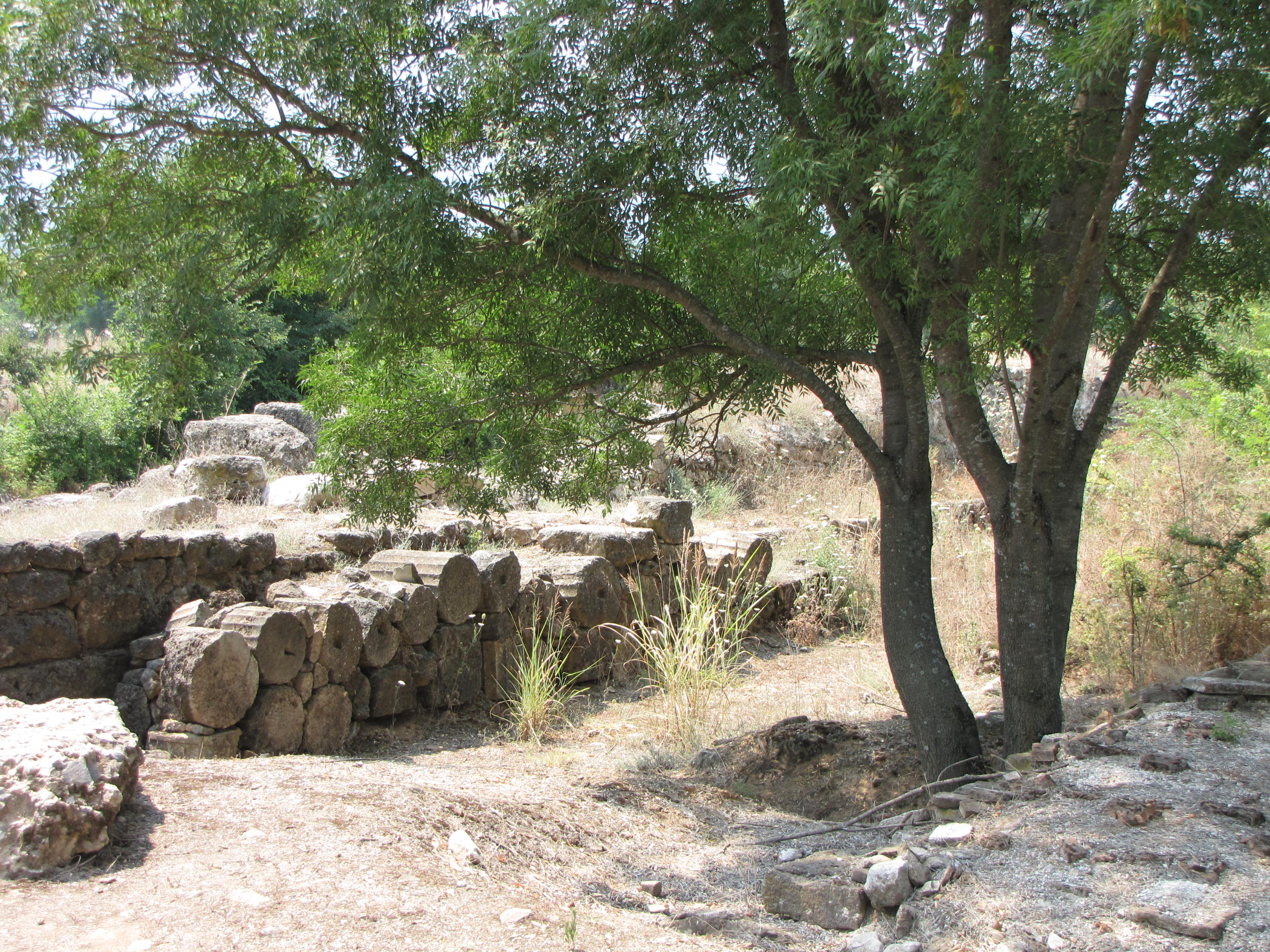 Remnant of the City Wall